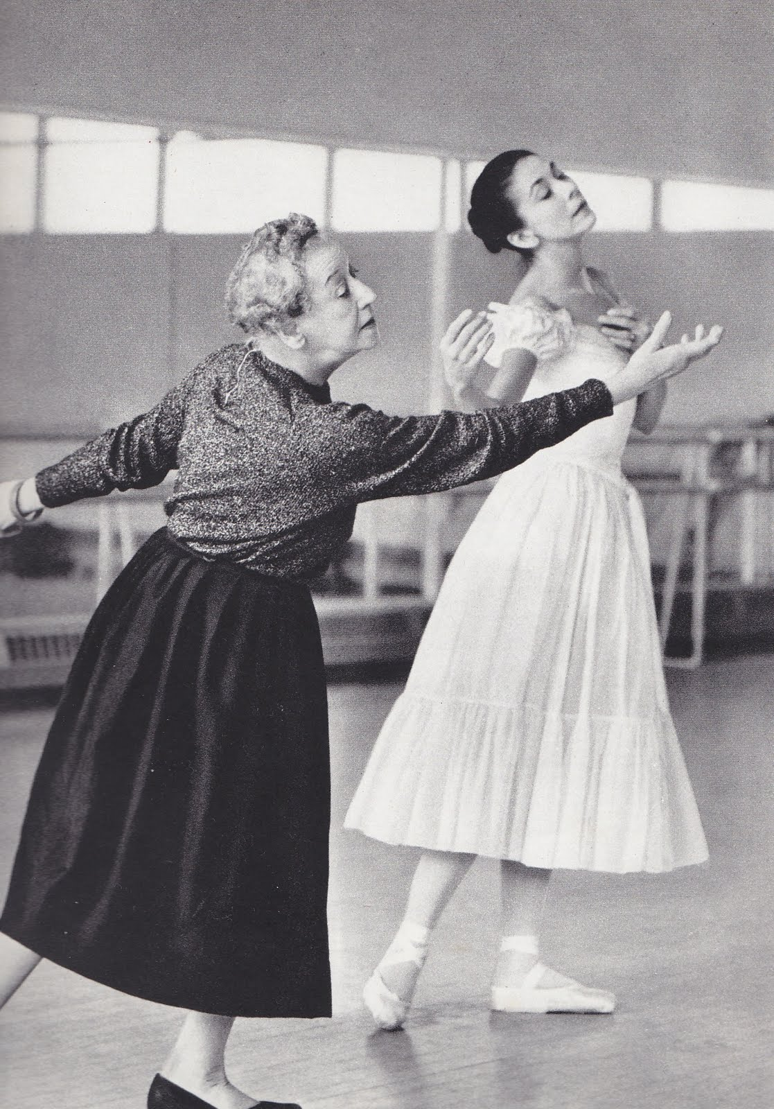 Tamara Karsavina rehearsing Margot Fonteyn for Le Spectre de la Rose